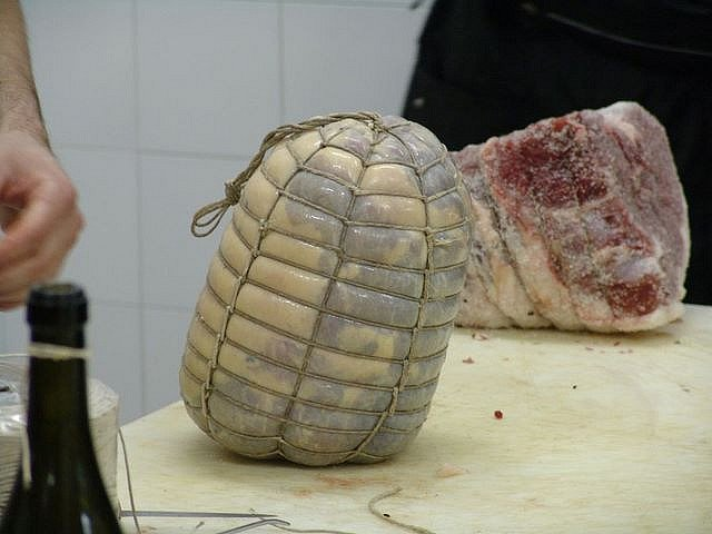 Culatello di Zibello before maturation, province of Parma - Italy.